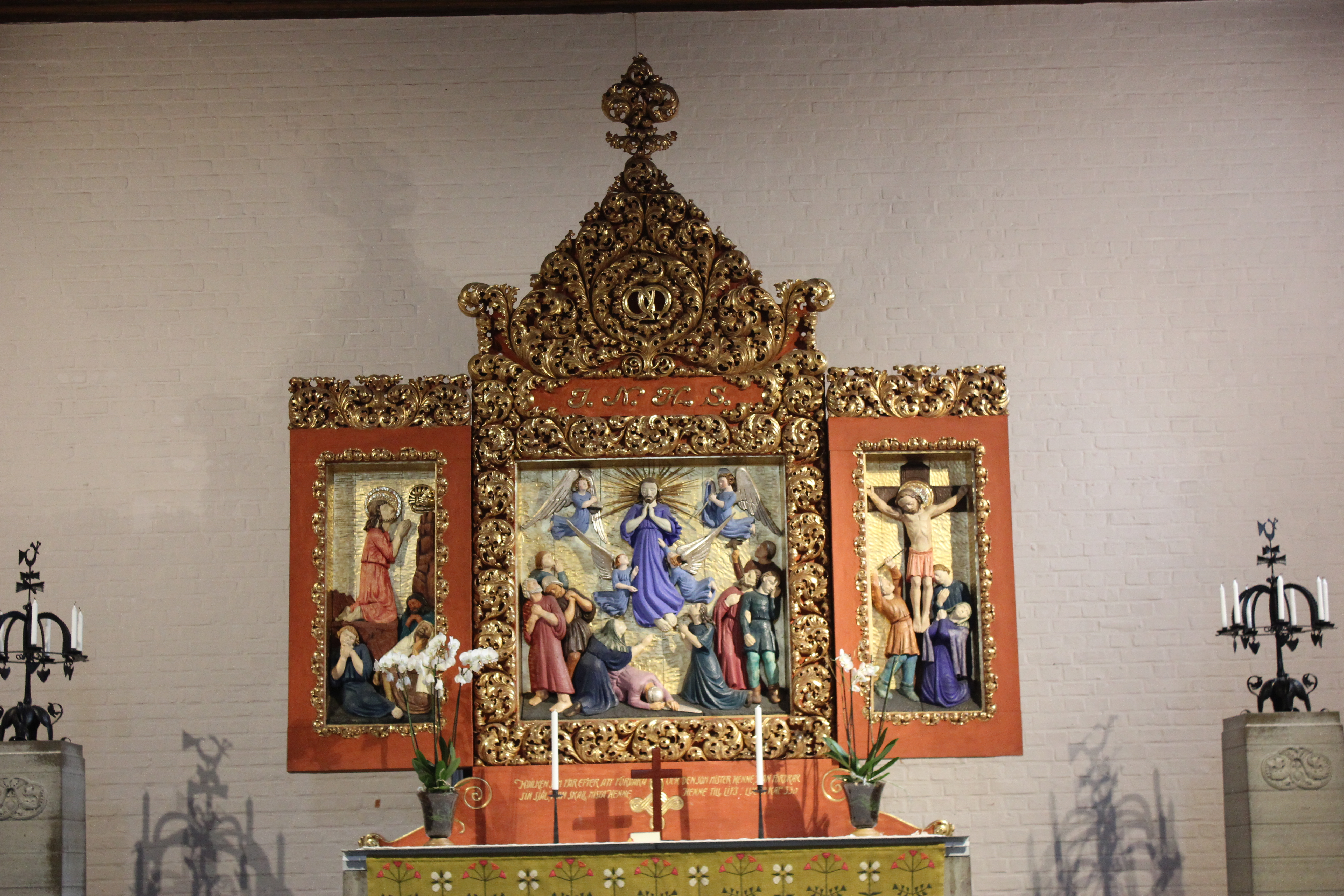 Gothenburg - Mastugget Church